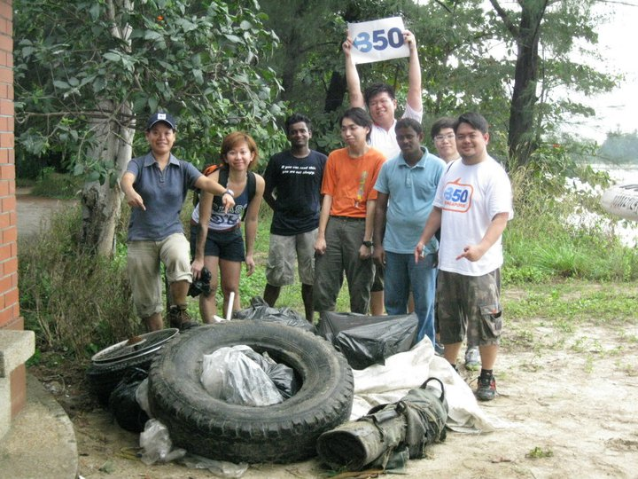 Members of TYN 350 Singapore at a coastal cleanup in Singapore. TYN 350 Singapore is an environmental interest group that is one of the "affinity groups" of Team Young NTUC (TYN), the social arm of Young NTUC which is the official youth wing of the National Trades Union Congress (NTUC) of Singapore.